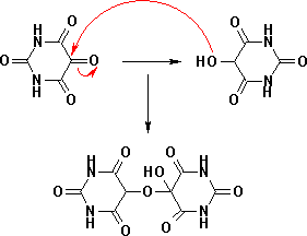 Alloxane chemistry